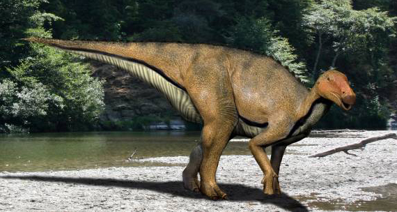 Life reconstruction of Koshisaurus katsuyama